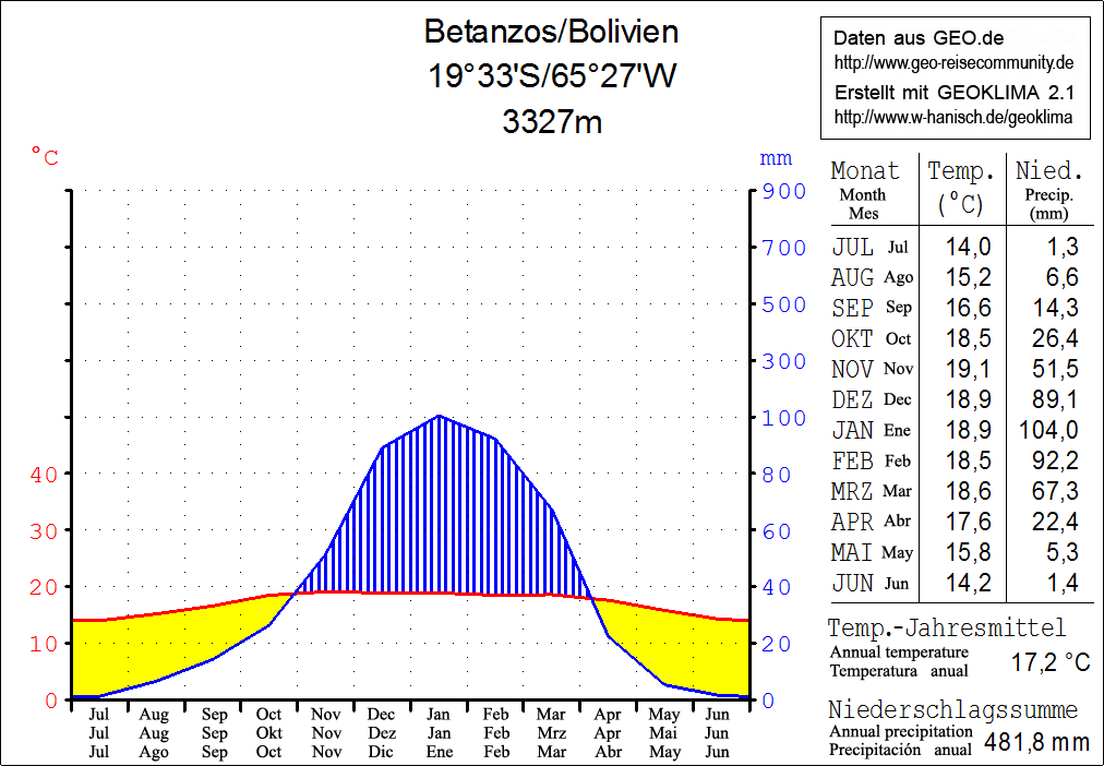 Climate chart in the Walter and Lieth format, metric, °Celsius und millimeters, made with Geoklima 2.1